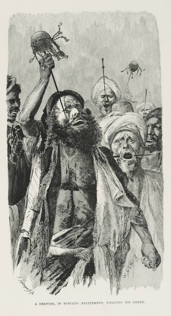 Men piercing their cheeks with ceremonial needles.